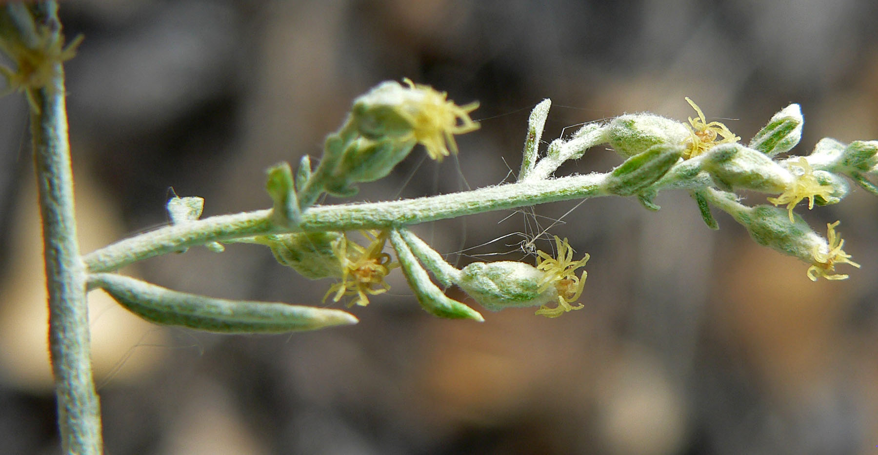 Artemisia ludoviciana subsp. albula at Wheeler Camp Spring west of Blue Diamond, Red Rock Canyon, Spring Mountains, southern Nevada (elev. about 1050 m)